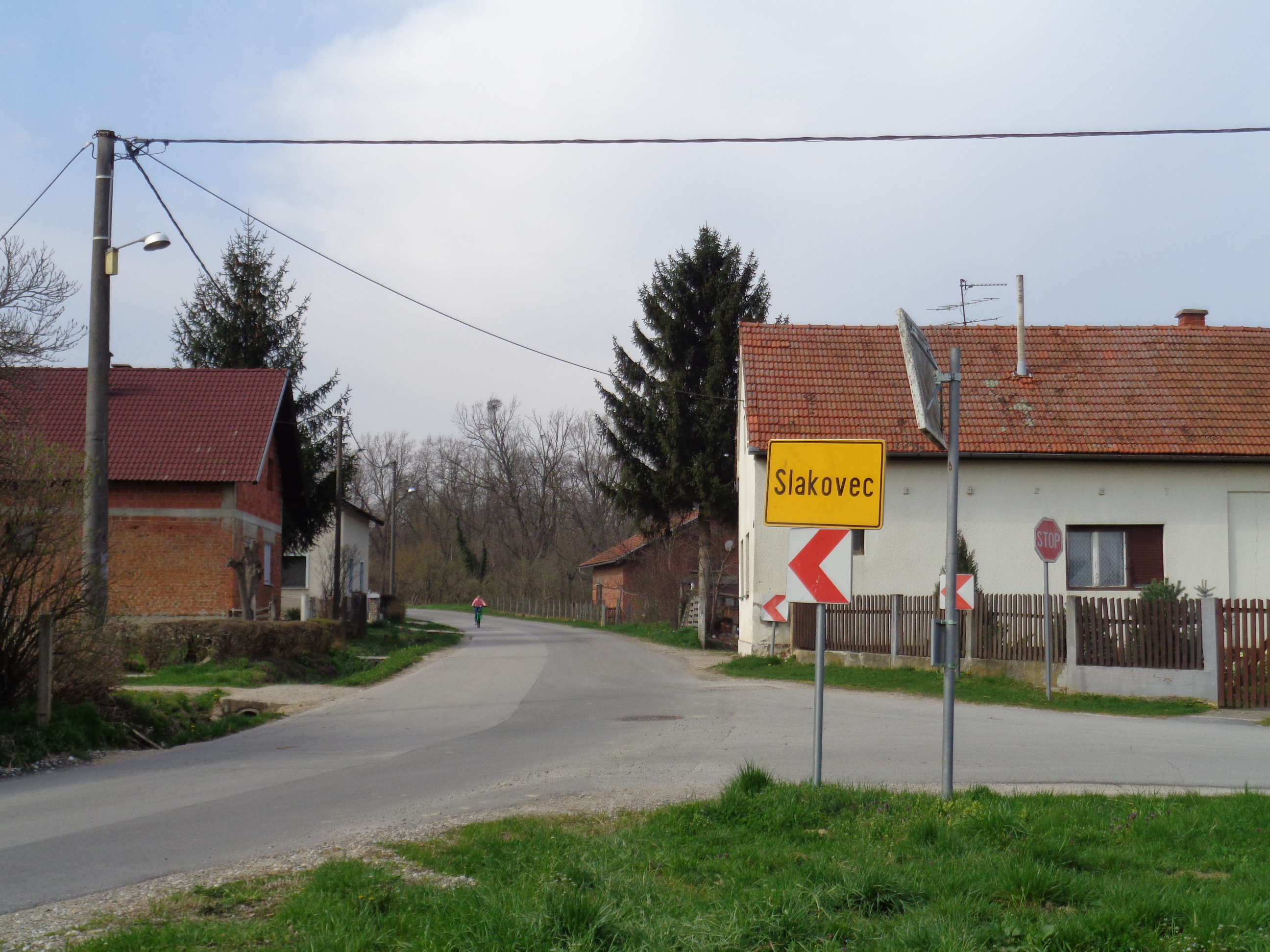 Slakovec village, Nedelišće municipality, Medjimurje County, Croatia, in springtime 2018